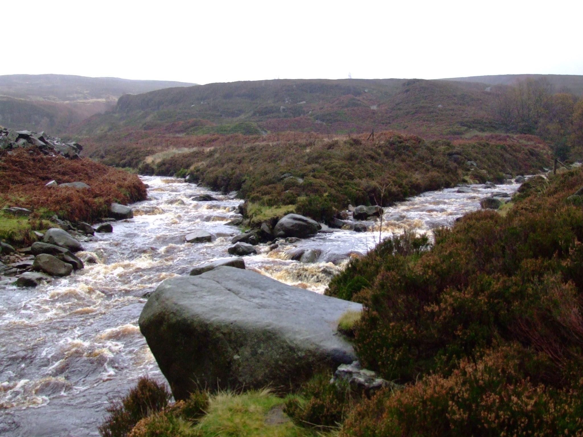 Longdendale in Derbyshire is the upper valley of the River Etherow. Confluence of Etherow (left) with Black Brook (right). - OpenStreetMap (Info)